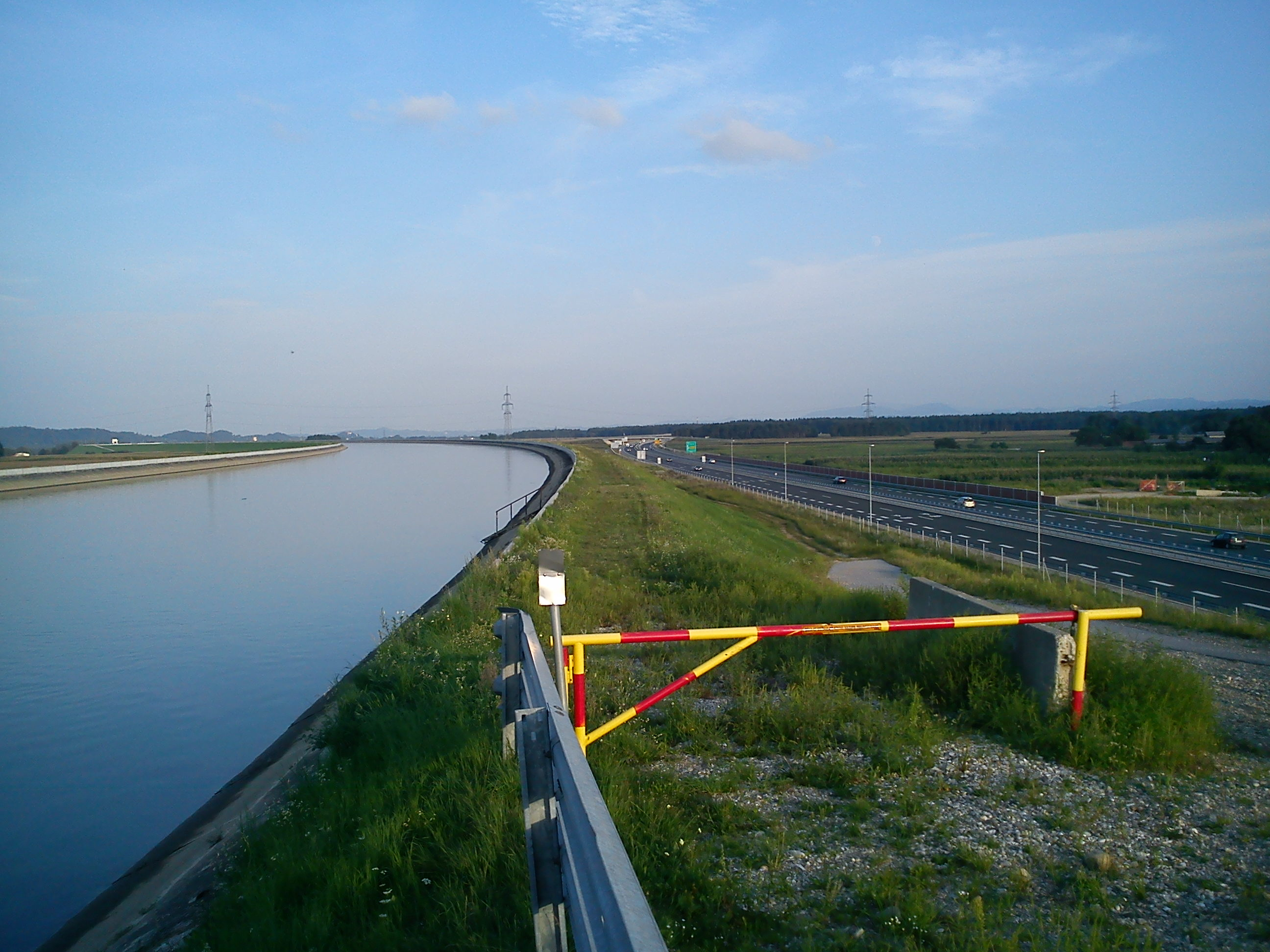 Drava canal & Highway